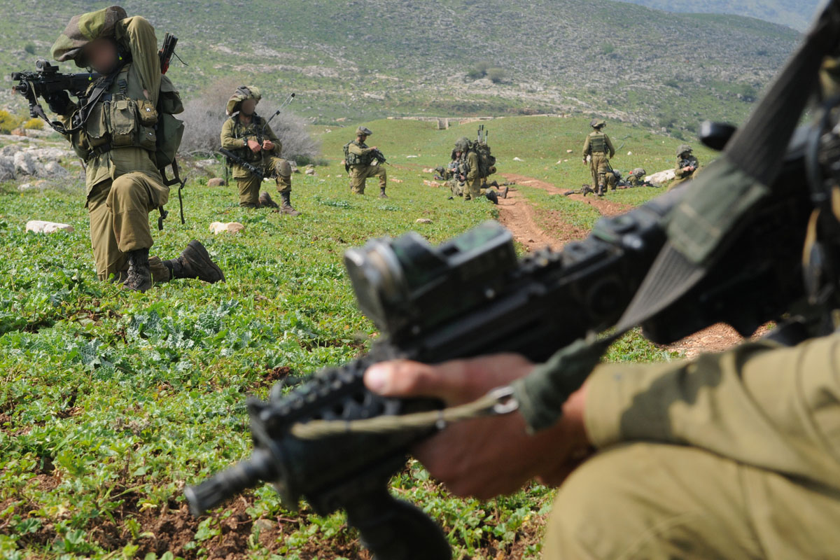 February 27, 2012 Last month, soldiers from the Elite Egot Unit took on their final test- after more than a year of training, they conducted a week of exercise in which they put all of their studying into action. During this week, the soldiers demonstrated their abilities in camouflage, fighting in urban warfare style and much more. The Egoz Reconnaissance Unit is an elite special forces unit of the IDF that specializes in guerrilla warfare. The Egoz Battalion is part of the Northern Command's Golani Brigade. Used as IDF Photo of the Day on May 7, 2012 The Israel Defense Forces Facebook The Israel Defense Forces blog Follow us on Twitter